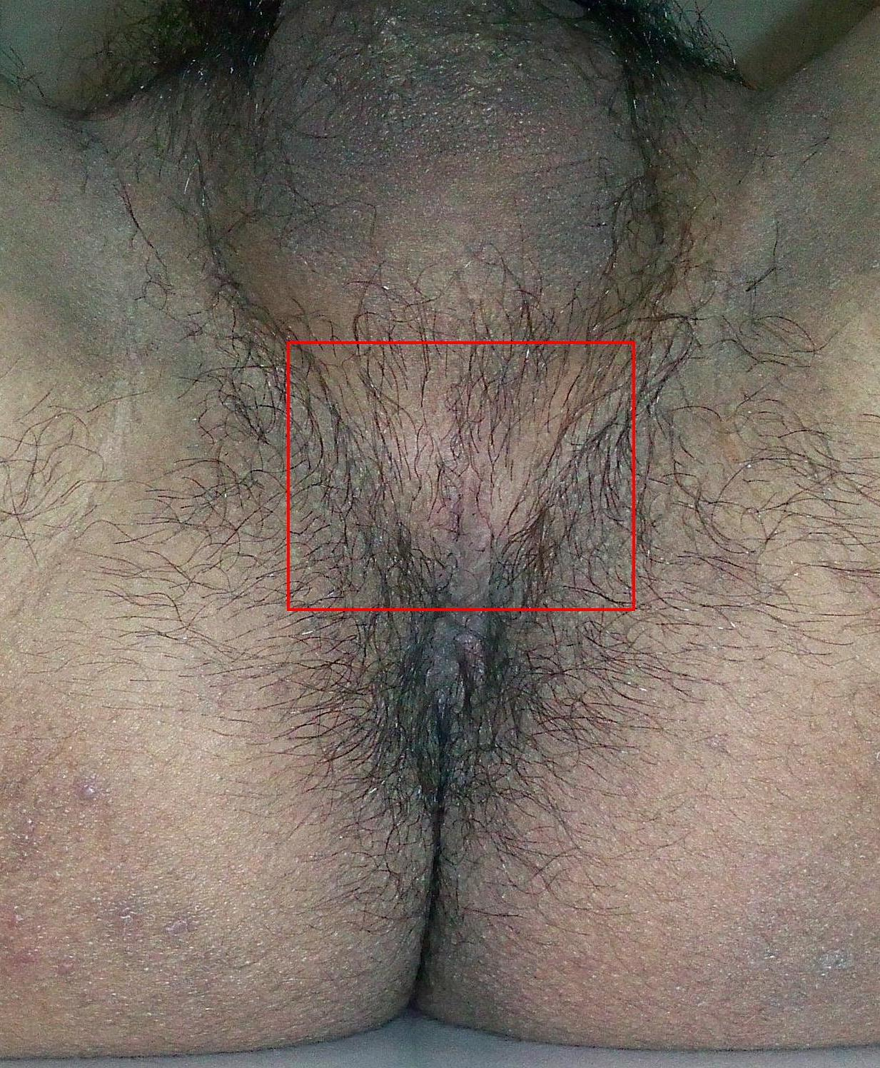 Perineum of a male